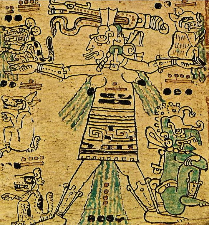 Ixchel Dresden codex representation